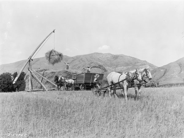 "Unloading dry farm wheat" By George W. Ackerman, Washington, 1925 National Archives and Records Administration, Records of the Extension Service (33-SC-5094c) [VENDOR # 62]